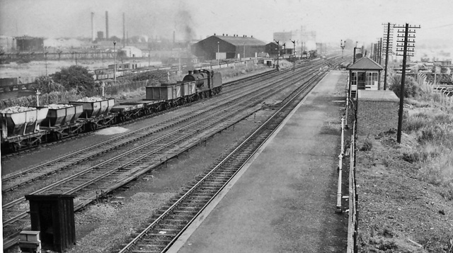 Bromford Bridge (Racecourse) Station. View eastward, towards Derby etc. and Leicester; ex- Midland trunk lines out of Birmingham to Water Orton, Tamworth, Burton-on-Trent, and to Leicester via Nuneaton. This was an extremely busy section, with constant freight traffic; a local working is seen on the Up Slow, headed by a 4F 0-6-0 (tender-first). On the left is the great Fort Dunlop Factory and its sidings. The station was used only on Race Days, the Racecourse being over on the right, and closed 28/6/65. All is now obscured under the M6 Motorway.